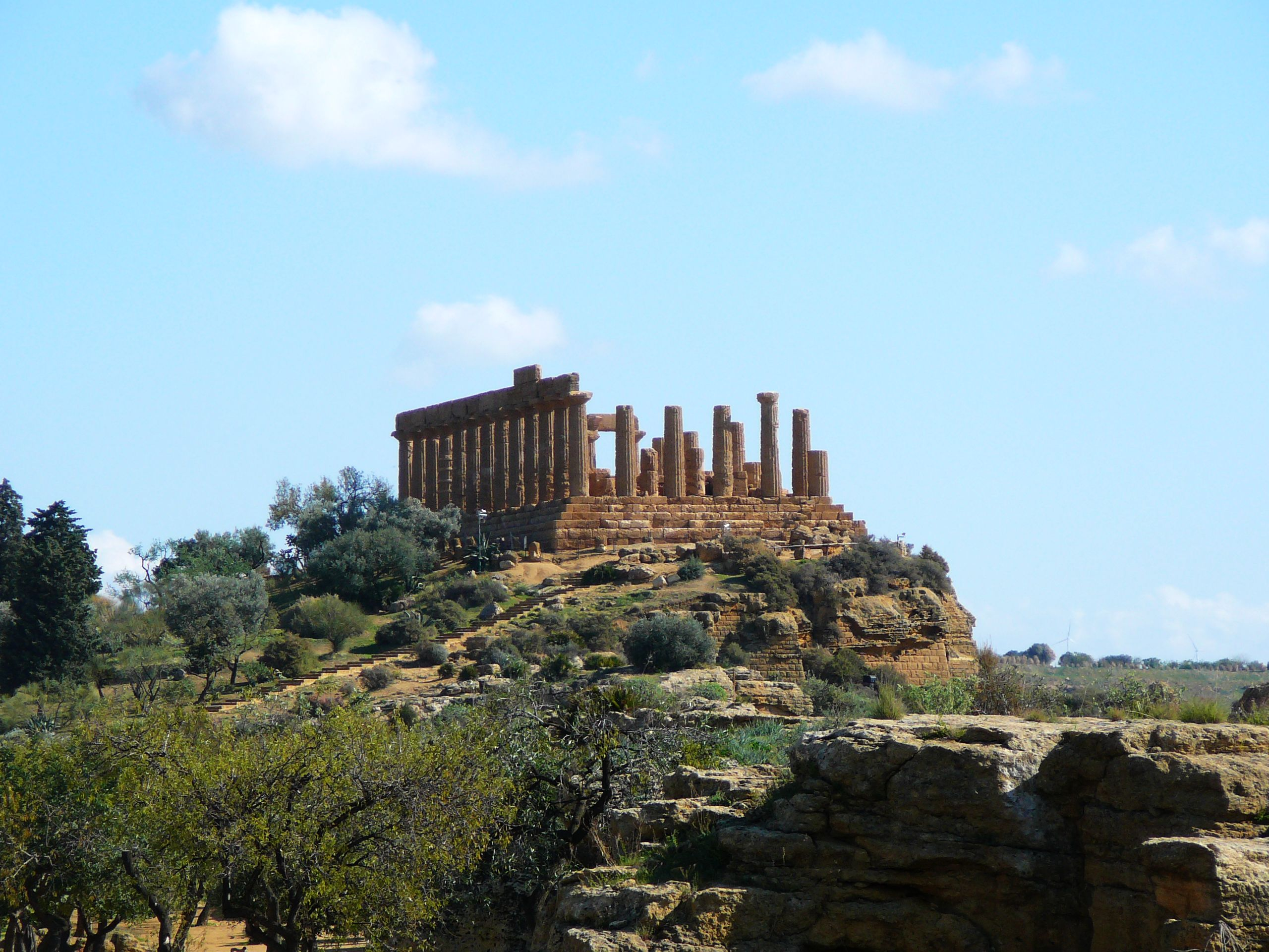 The ancient Greek Temple of Hera in Agrigento, Sicily, Italy.